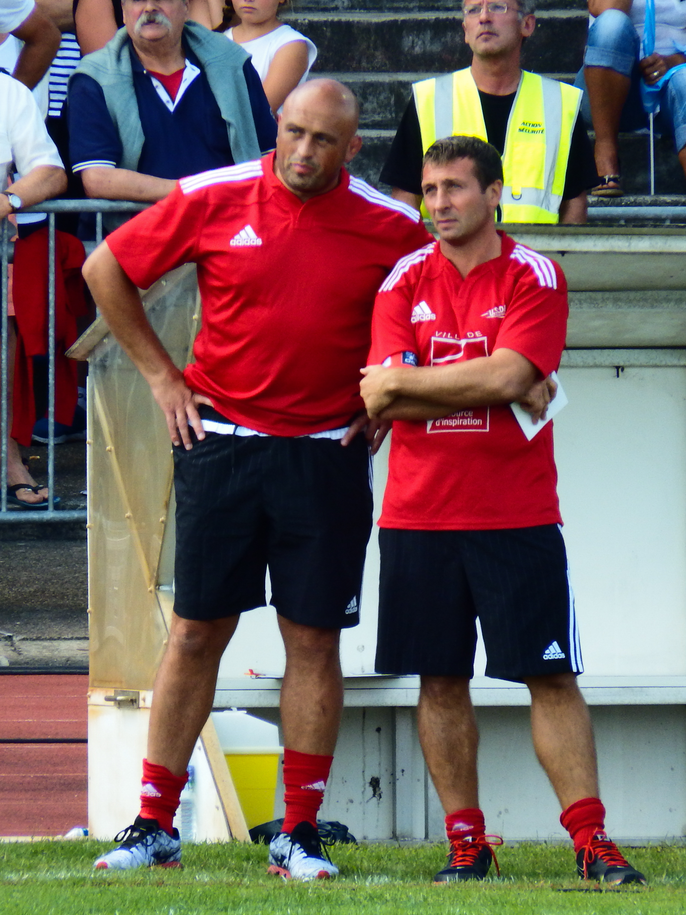 Q20724161 — 6 September 2015, stade Maurice-Boyau. Match between: US Dax — Aviron Bayonnais